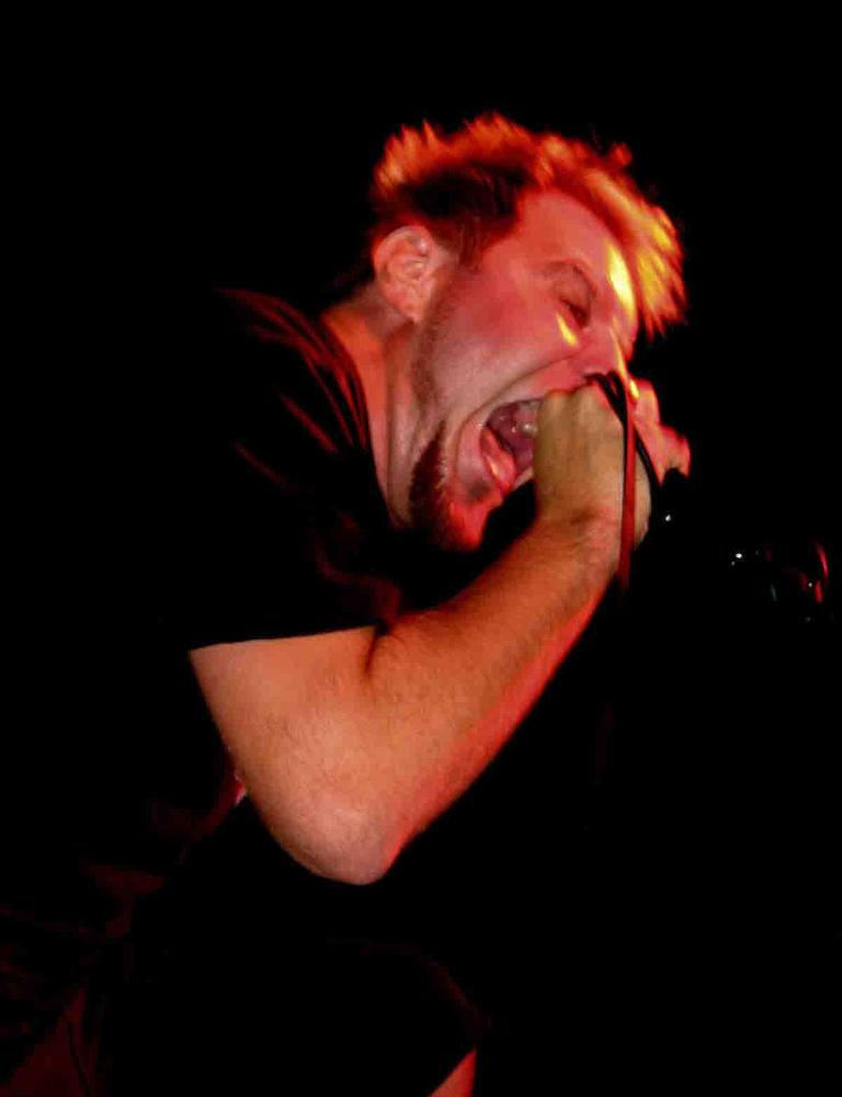 36 Crazyfists play Skaters Palace, Münster on 13 September 2006.